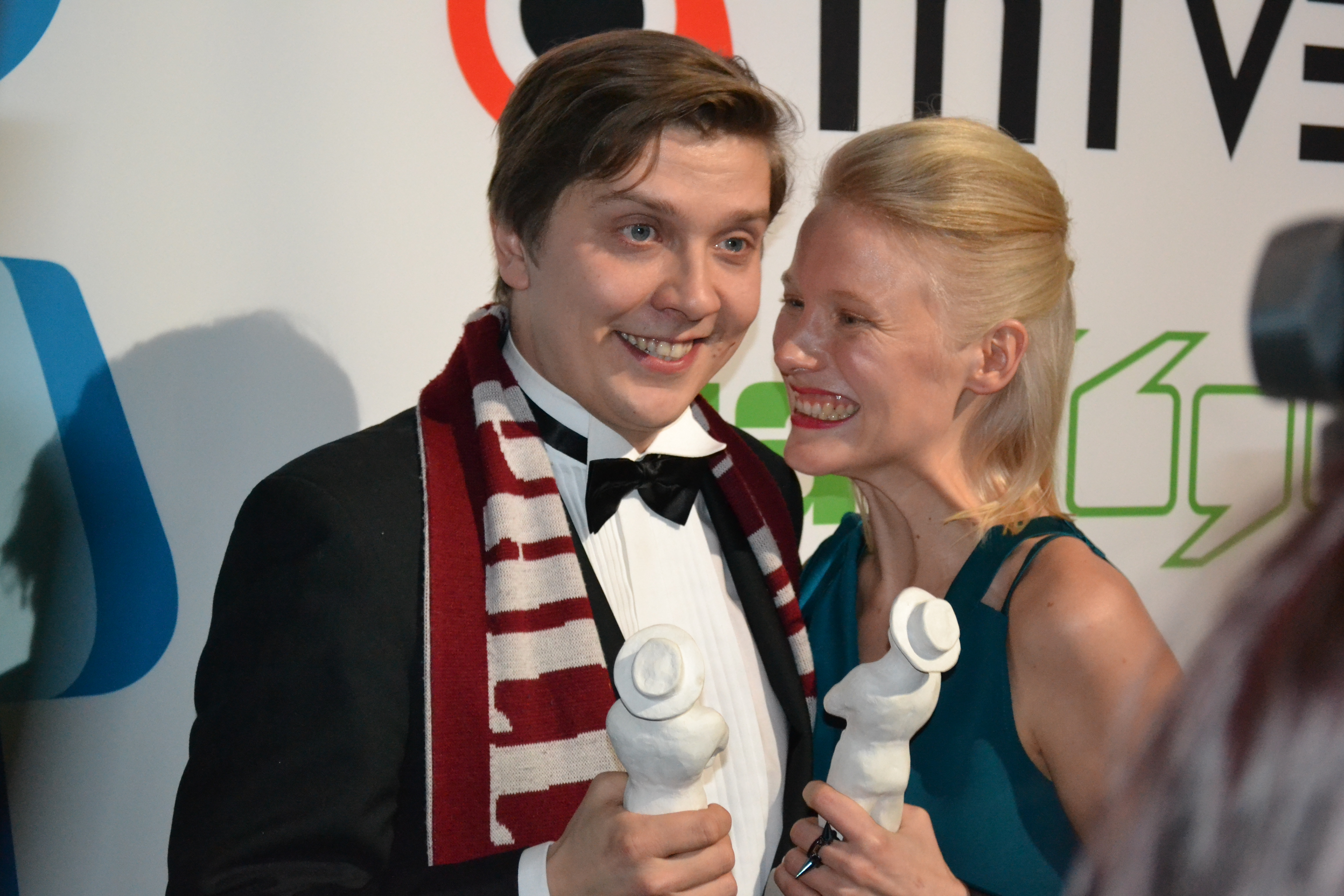 Eero Ritala and Laura Birn in 2013 Jussi Awards.